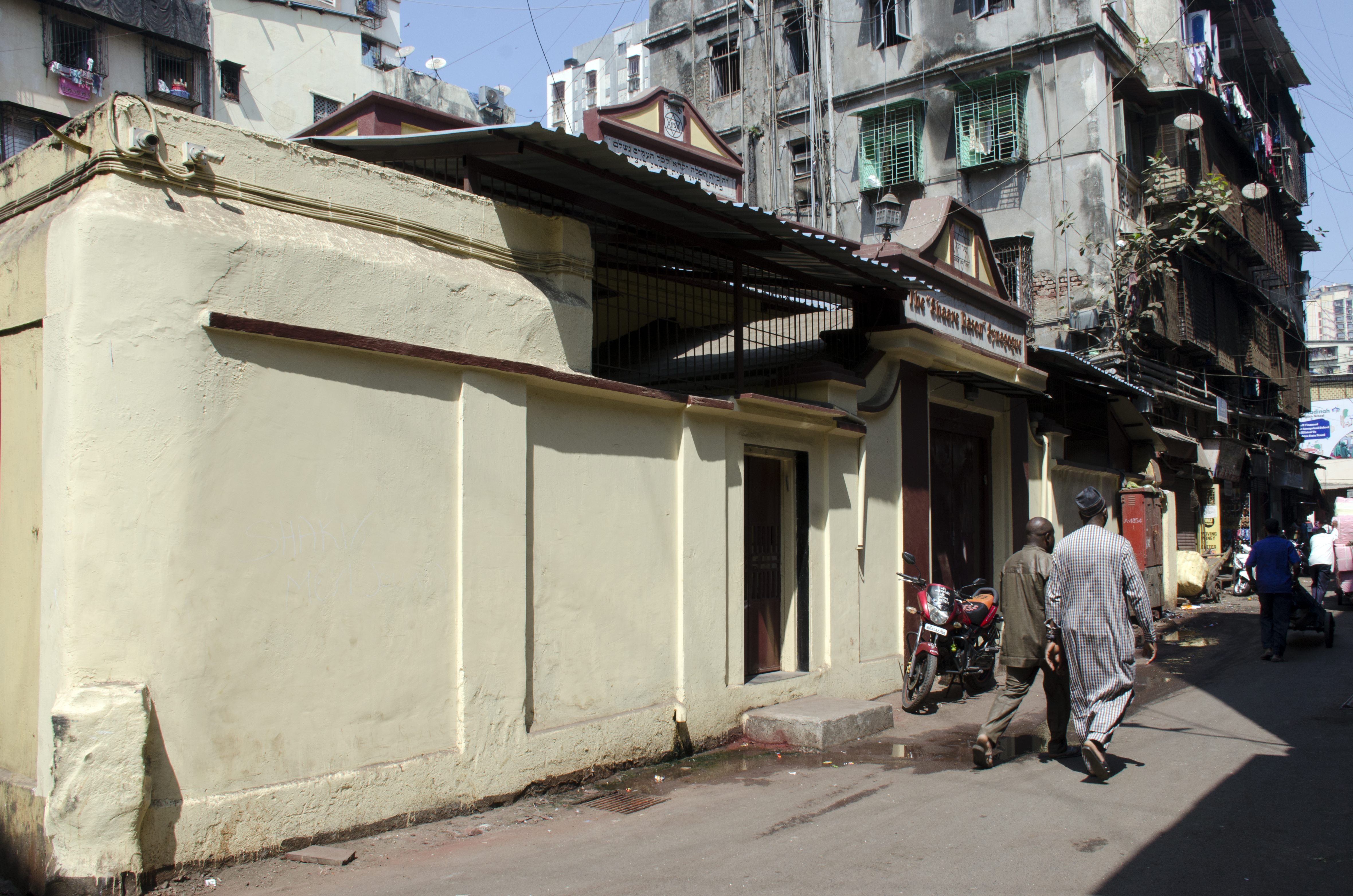 Shaare Rason Synagogue, Mumbai